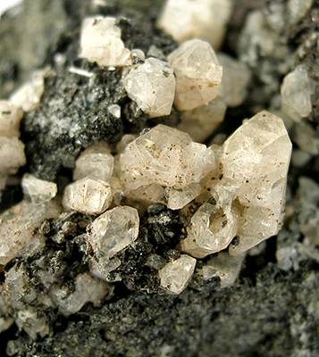 Anorthite Locality: Somma-Vesuvius Complex, Naples Province, Campania, Italy (Locality at ) Size: small cabinet, 6.9 x 4.1 x 3.8 cm Anorthite Among the least common of the plagiclase feldspar family, this specimen of anorthite is significant because it is from the TYPE LOCALITY and has isolated sharp crystals nestled in basaltic vugs. The anorthite crystals are surprisingly lustrous, somewhat translucent and white - they look more like phenacite than anything else. Elongated, textbook-like crystals reach 1.0 cm in length and form a super color contrast with the host black basalt. This specimen is from the type locality for anorthite.